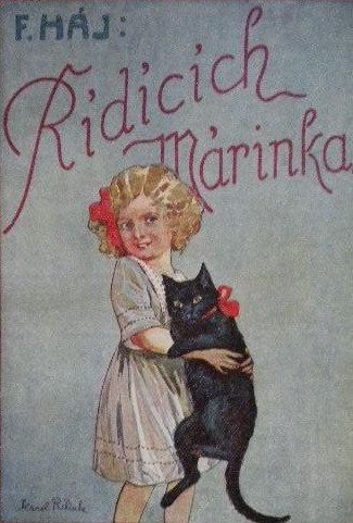 Karel Rélink, cover page of Řídících Márinka (1935)